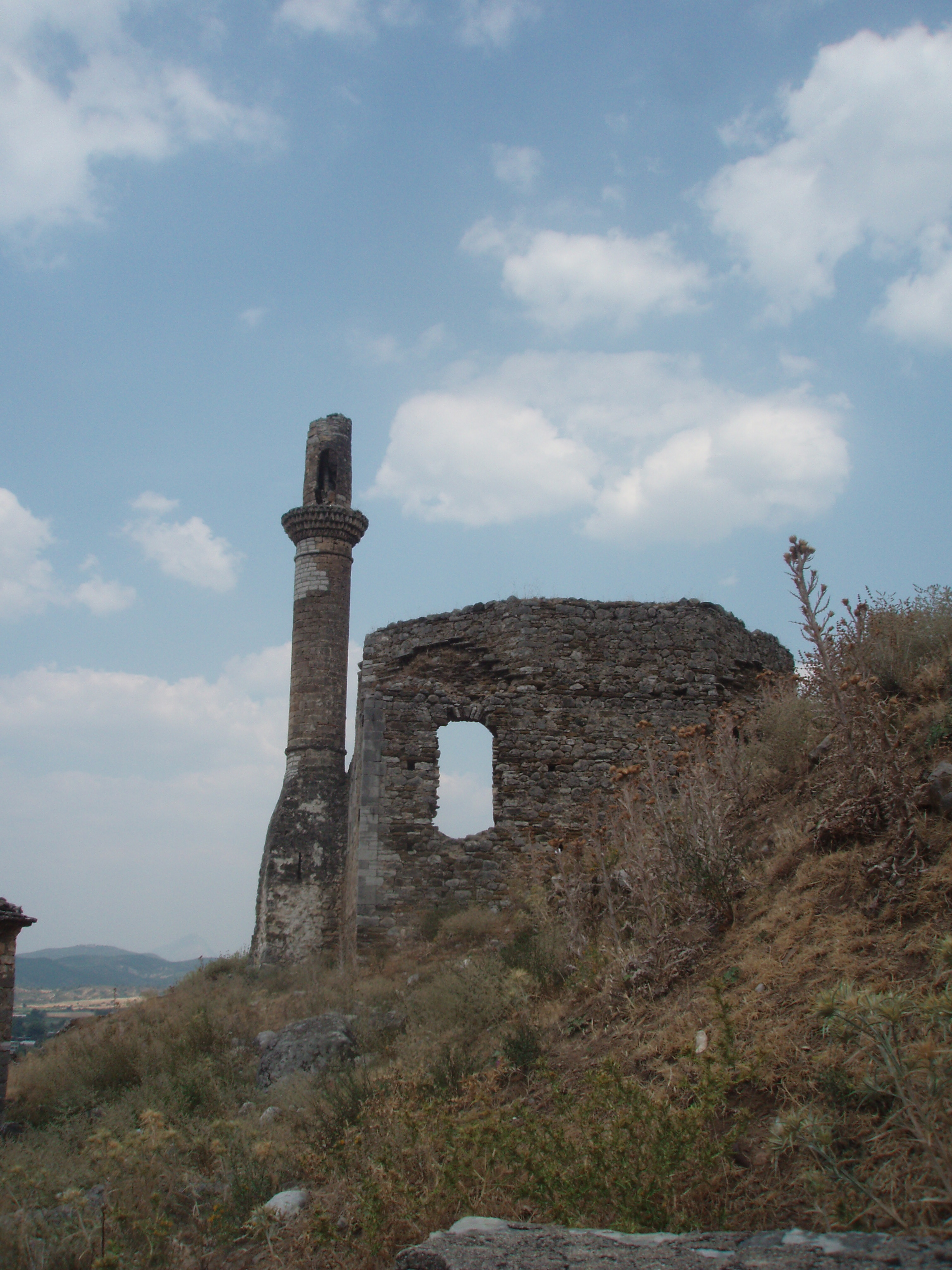 Ruins of Ottoman mosque in Konitsa, Ioannina prefecture, Greece.